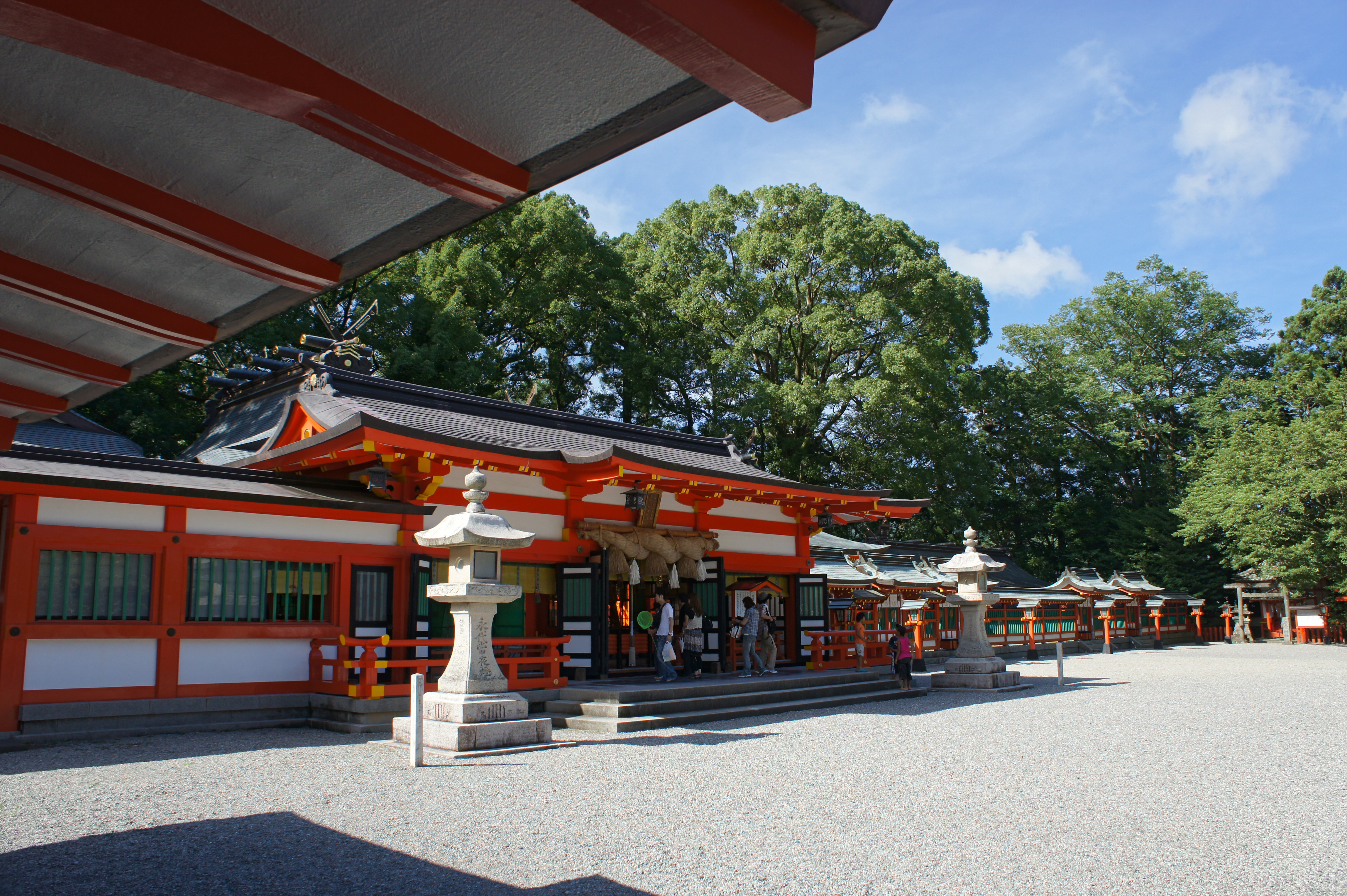 Kumano-Hayatama-shrine in Shingu, Wakayama Prefecture, Japan.